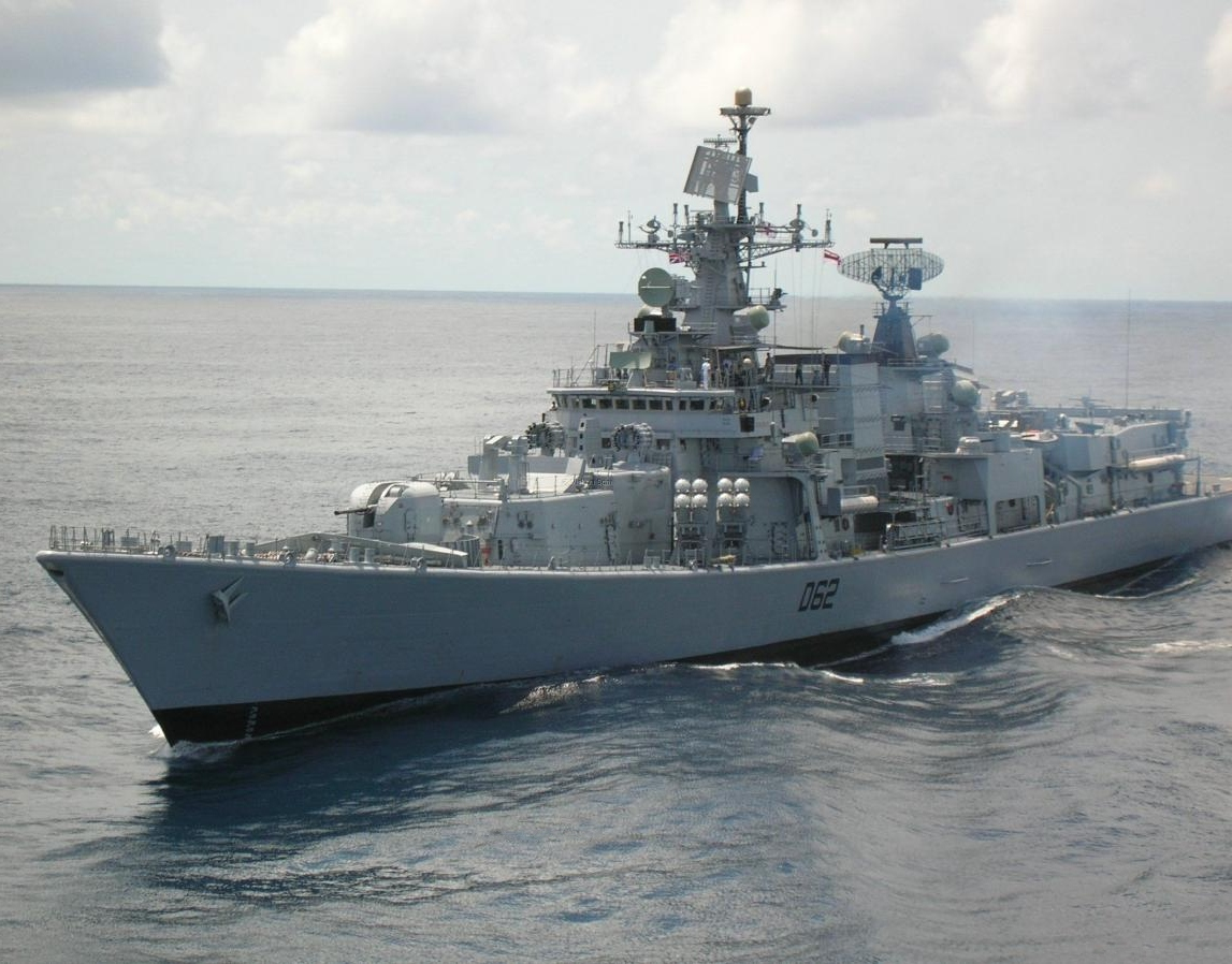 INS Mumbai (D62), a Delhi class guided missile destroyer of the Indian Navy underway